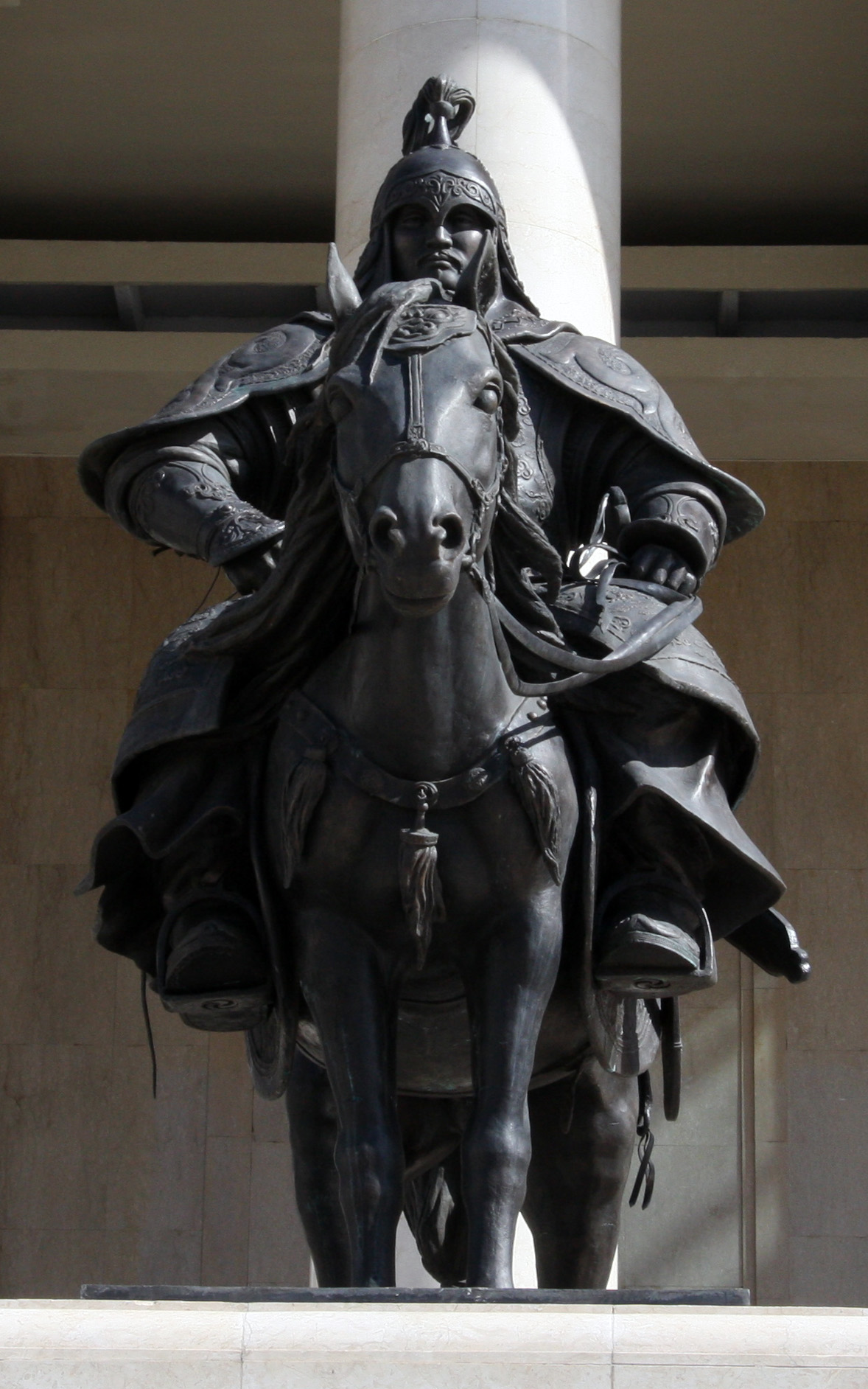 Statue of Bo'orchu (Boorchi) in Sukhbaatar Square, Ulaanbaatar